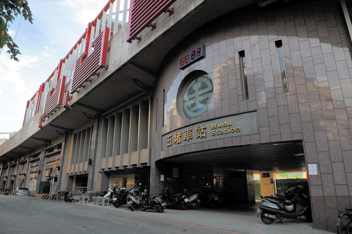 TRA Wudu Station entrance on Changan Road.